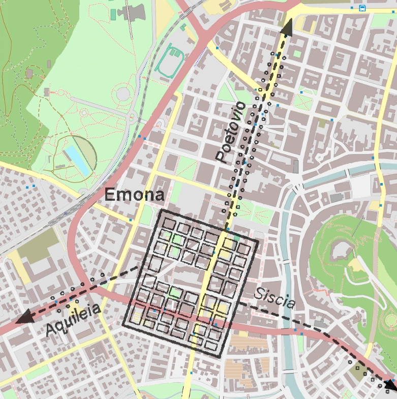 Ancient Roman city of Emona - its location and form overlayed on a map of modern day Ljubljana, capital of Slovenia. Map of Ljubljana is from